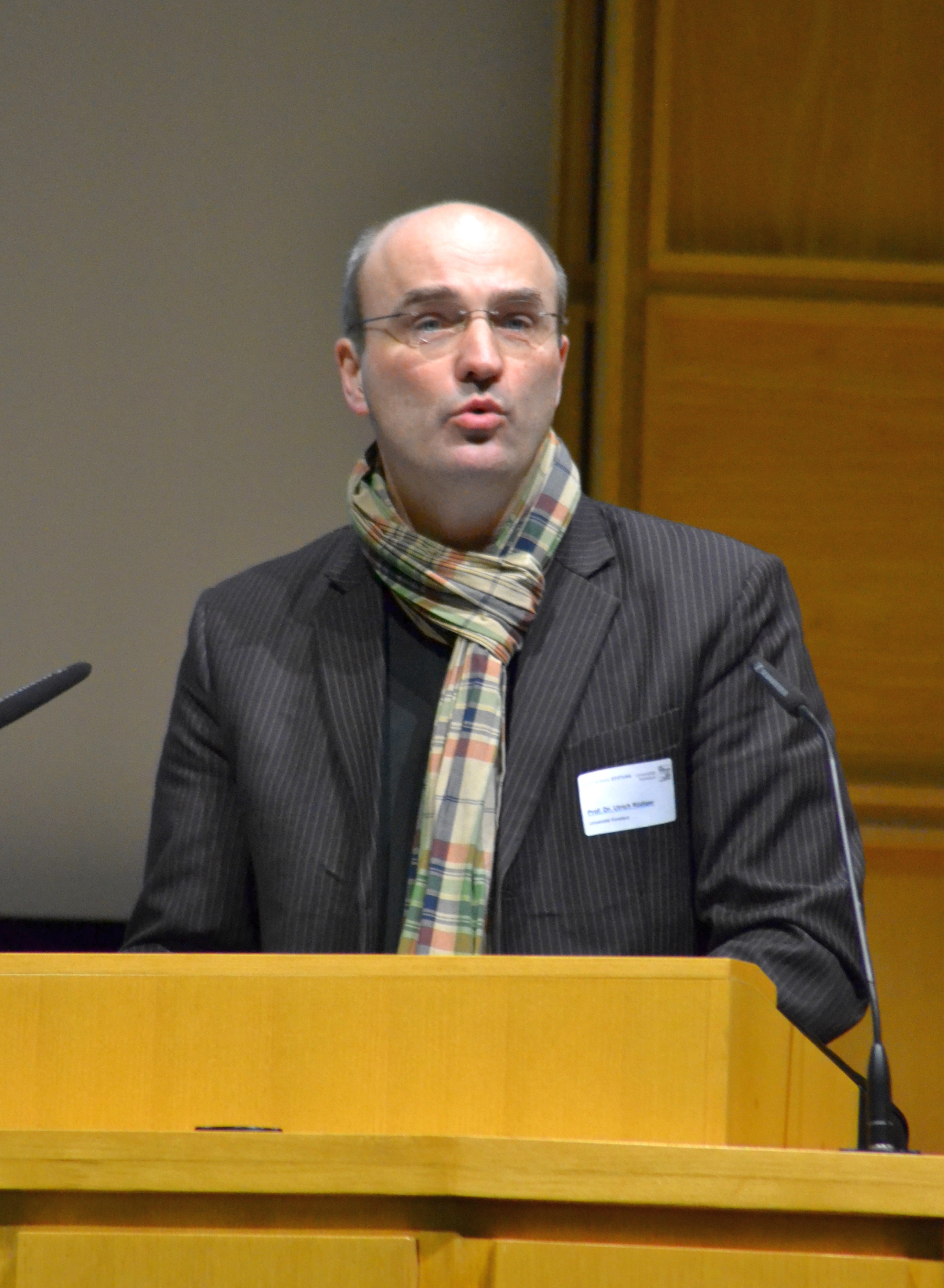 Conference "Die Zukunft der Wissensspeicher: Forschen, Sammeln und Vermitteln im 21. Jahrhundert" ("Future of the knowledge stores") of the University of Konstanz with the Gerda Henkel Stiftung at the Nordrhein-Westfälischen Akademie der Wissenschaften und Künste in Düsseldorf on 5th and 6th of March 2015.